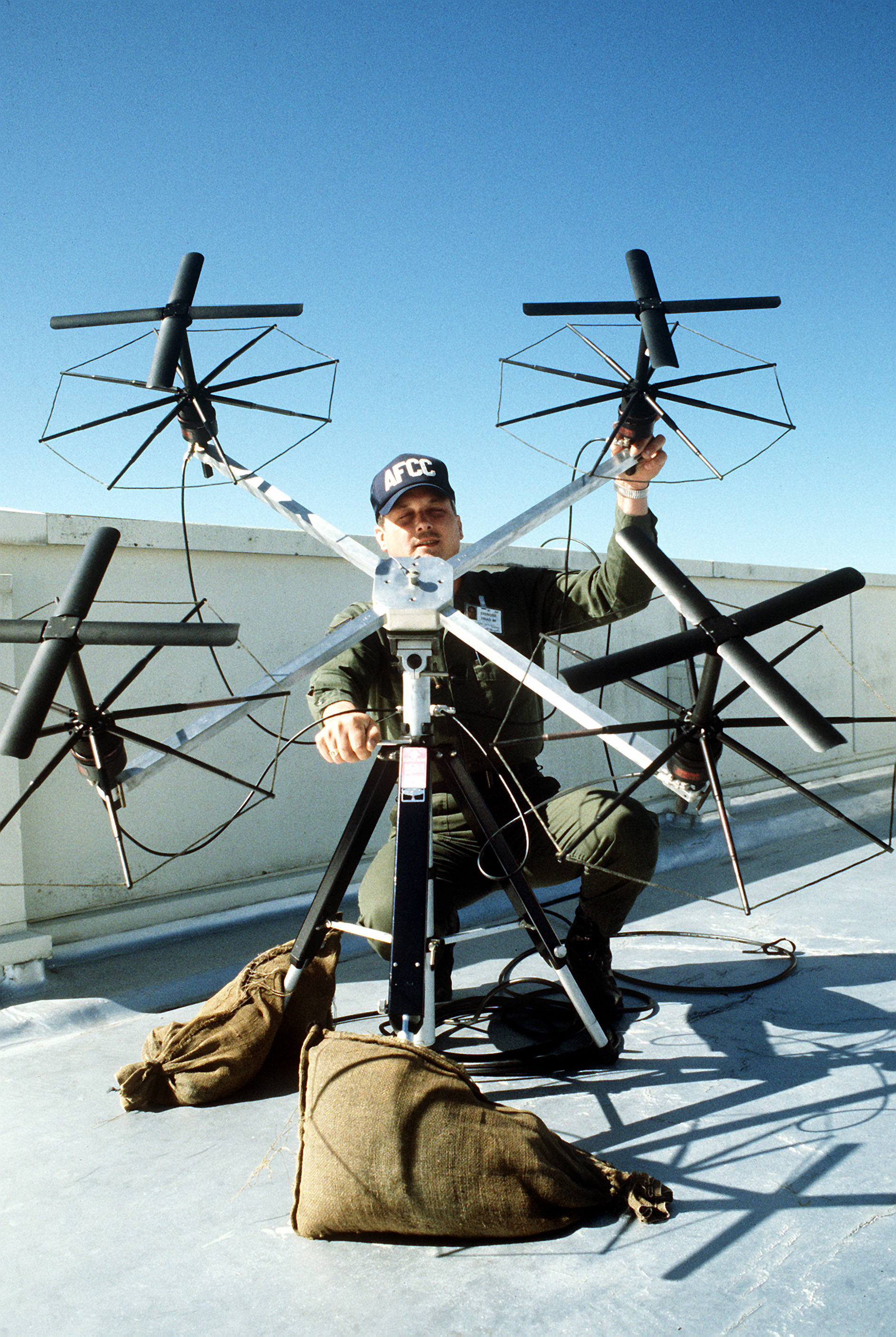 A member of the 13th Air Force command center sets up a satellite communications antenna during the joint Australian, New Zealand and U.S. (ANZUS) Exercise Triad '84.